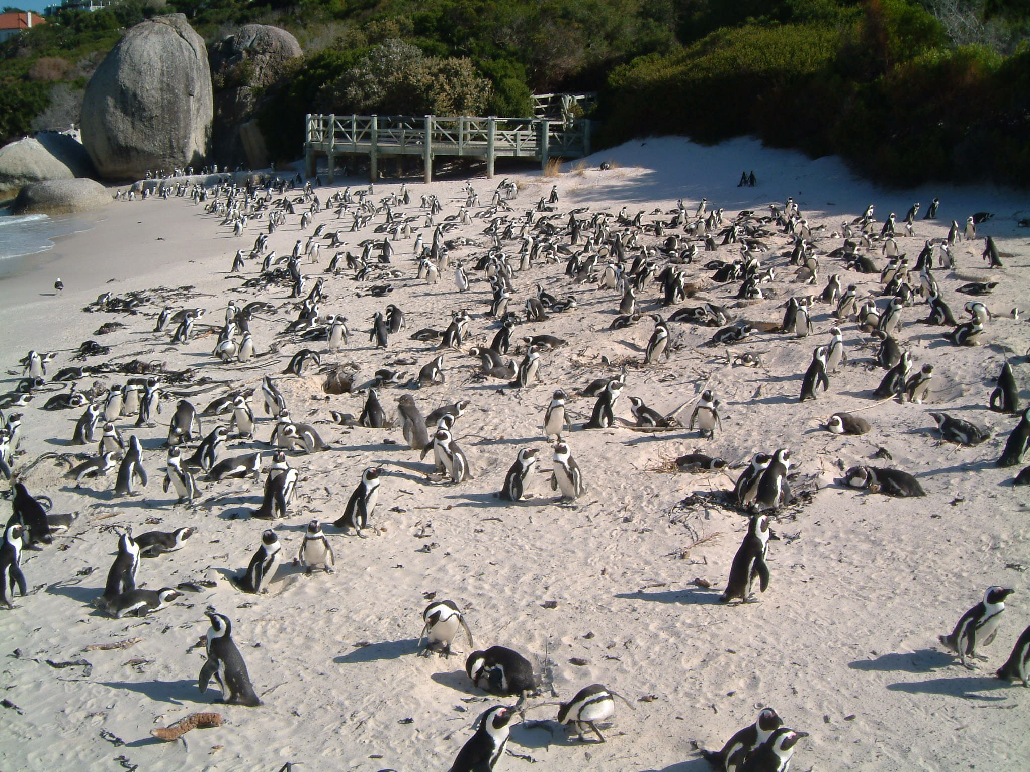 African Penguins on Boulders Beach, South Africa Own work